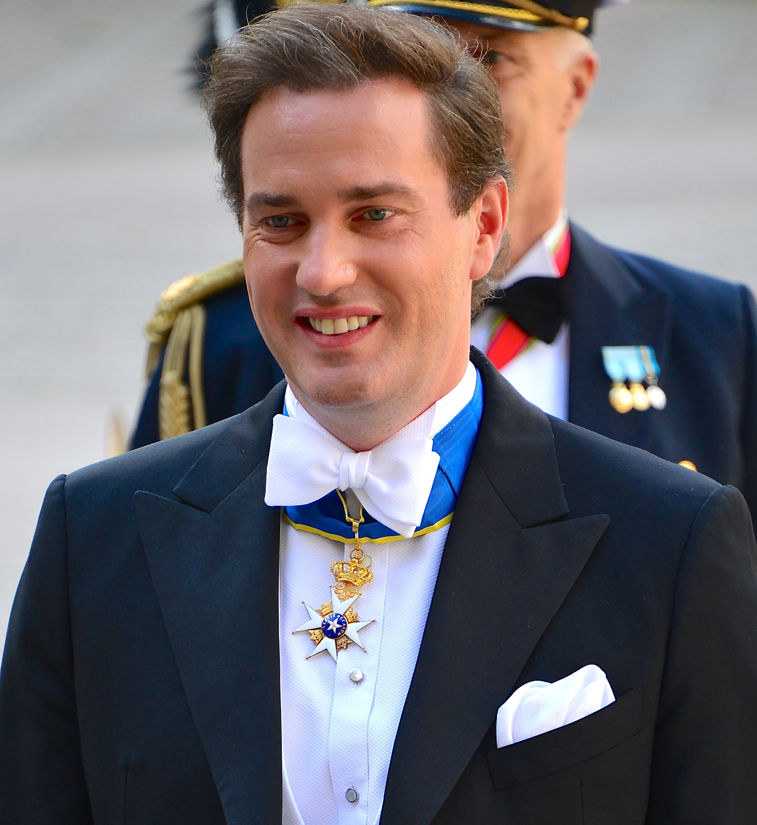 Christopher O'Neill heading into the Royal Chapel at the Royal Palace in Stockholm to tie the knot with Princess Madeleine, June8th, 2013.